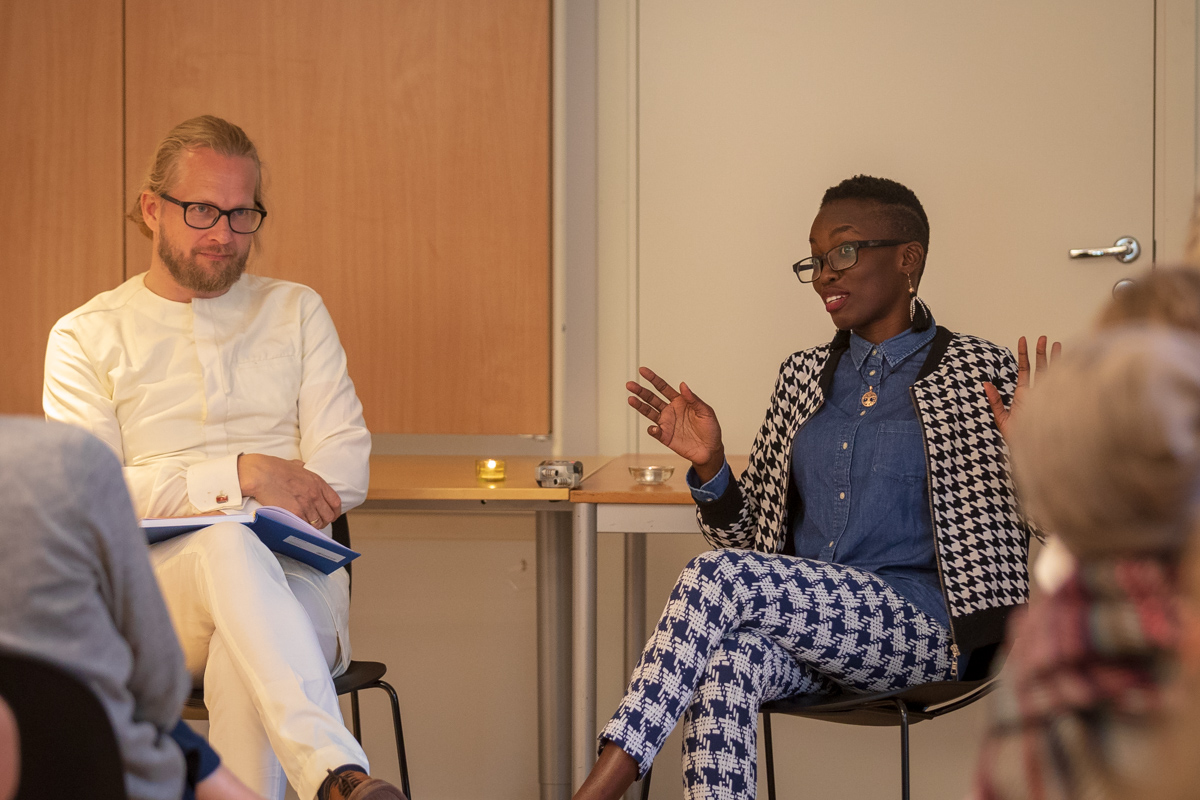 Conversation between OluTimehin Adegbeye and Aslak Sira Myhre at Norwegian Council for Africa. The event took place on September 21, 2018.